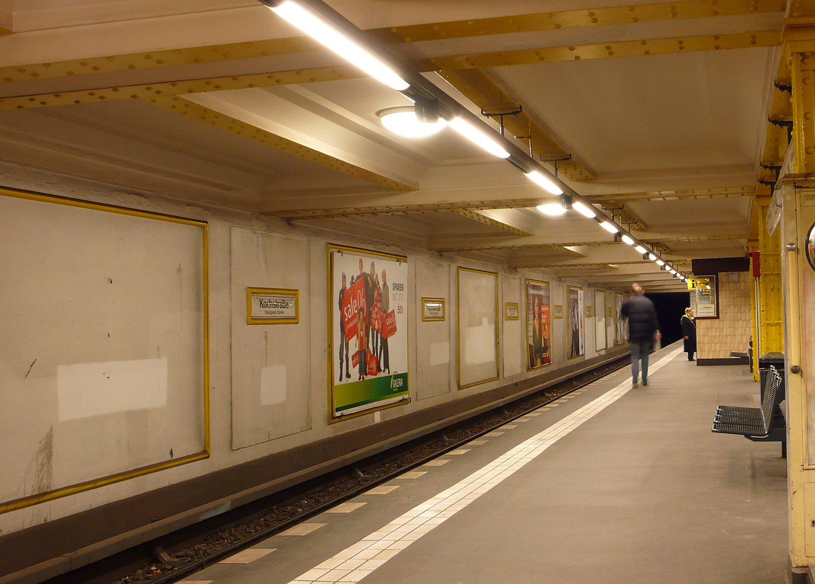 Subway Kochstr.